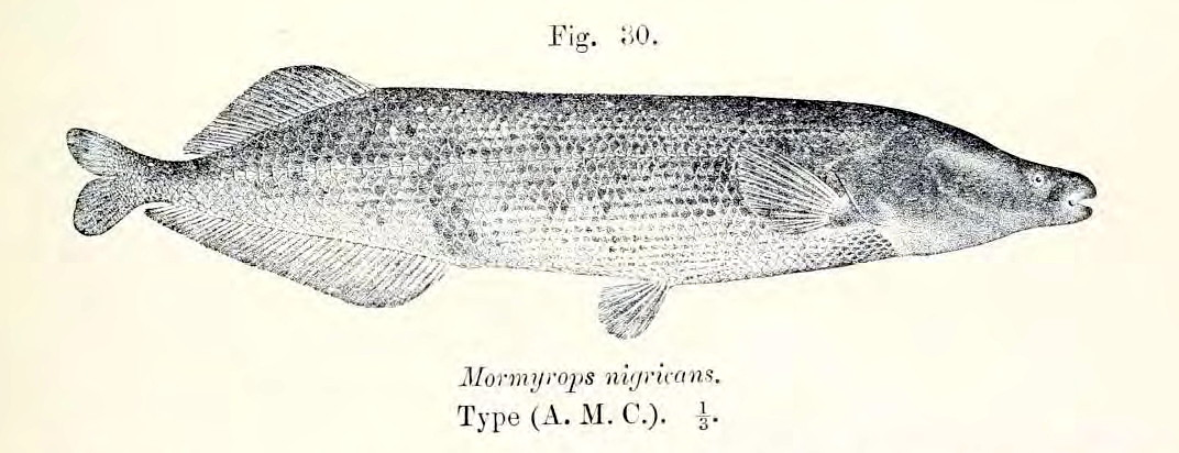 Mormyrops nigricans Boulenger, 1899